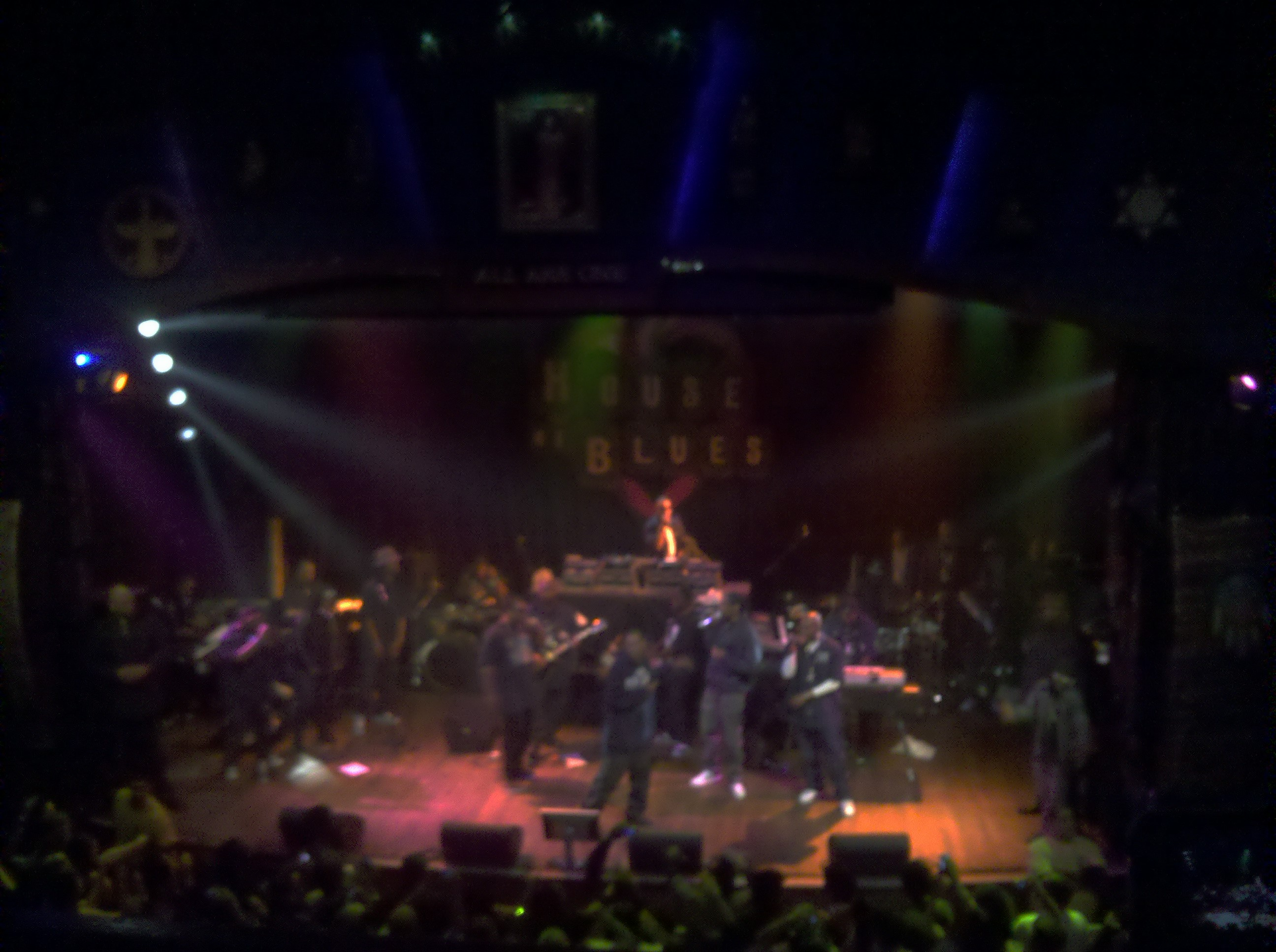 performing We Can Freak It